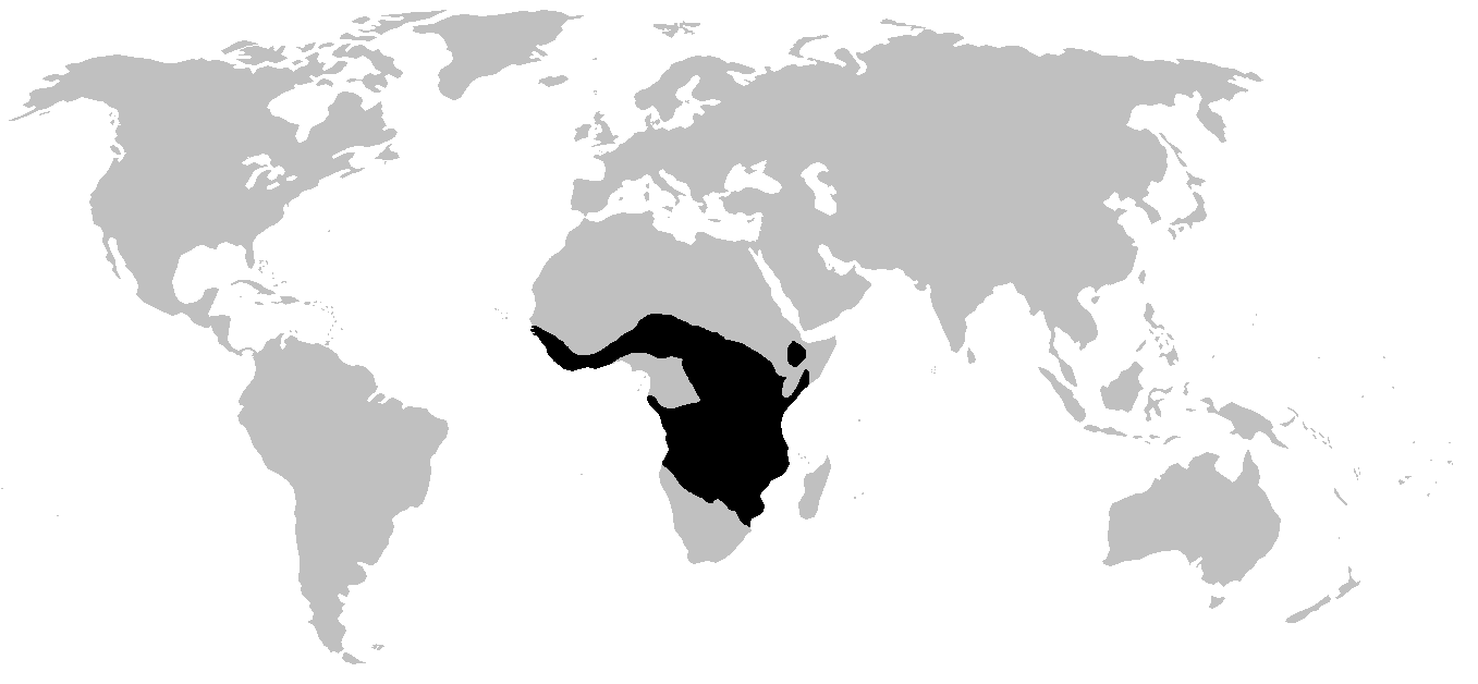 Distribution of Hemisotidae.